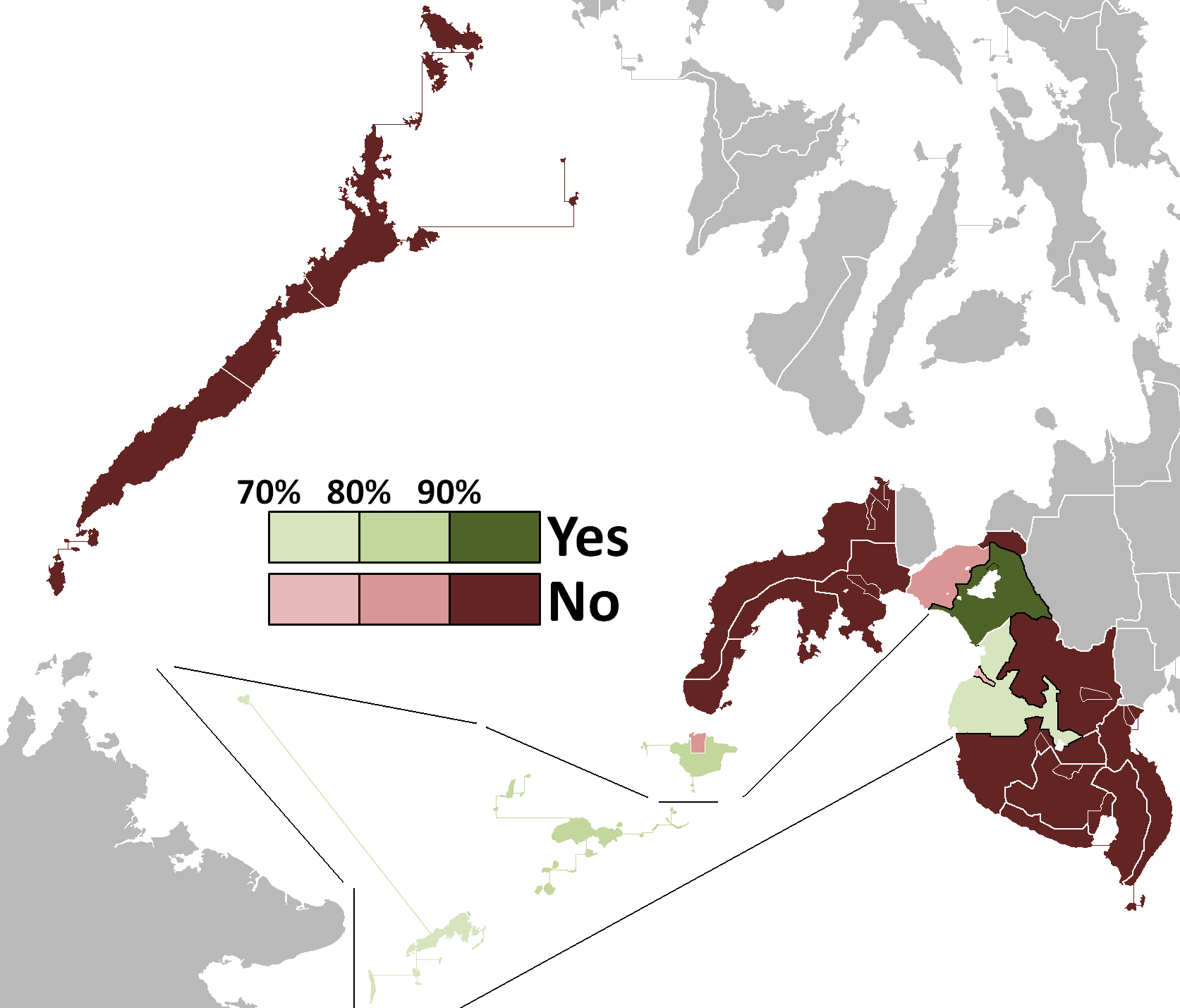 Result of the Autonomous Region in Muslim Mindanao expansion and inclusion plebiscite.